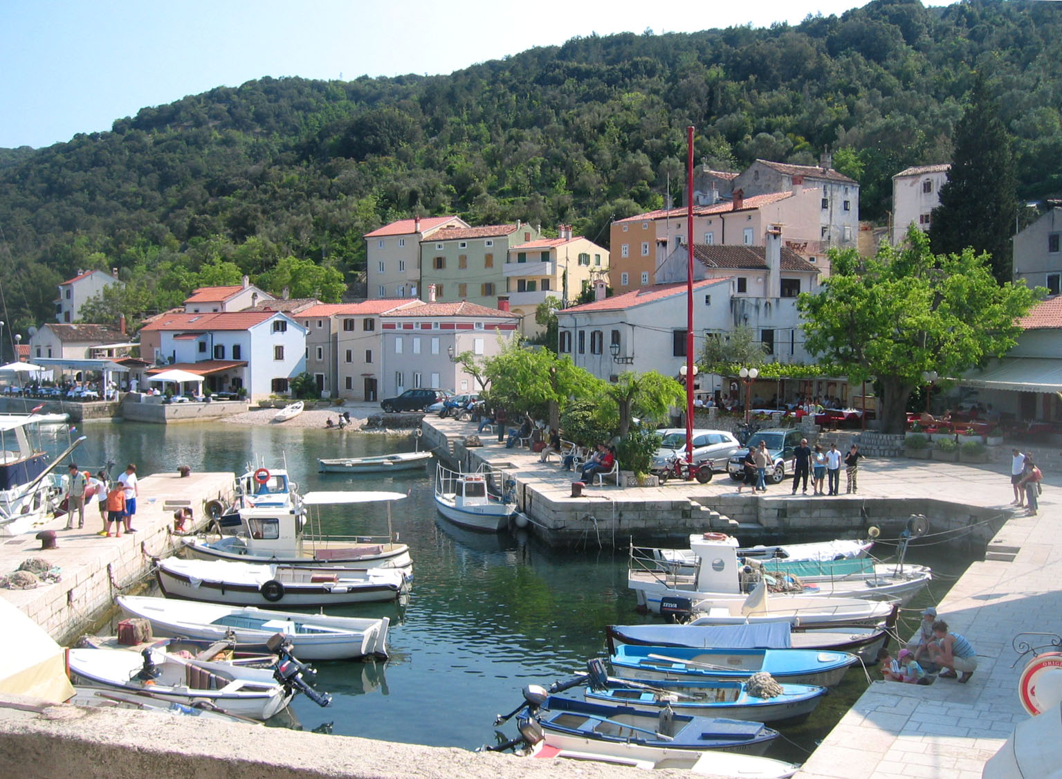 Valun, village on island Cres, Croatia